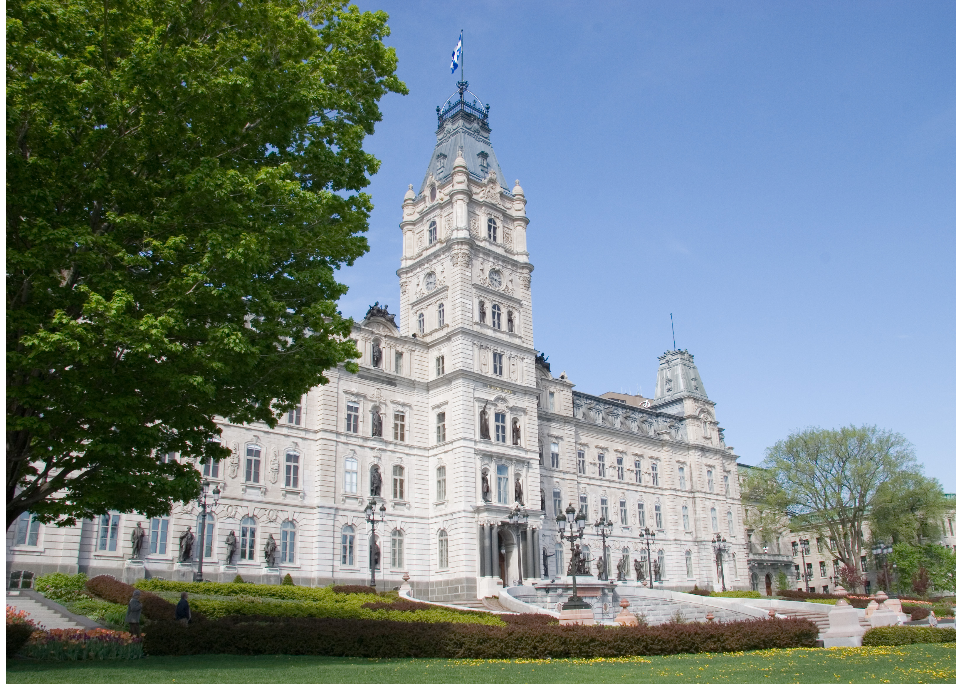 Hôtel du Parlement du Québec